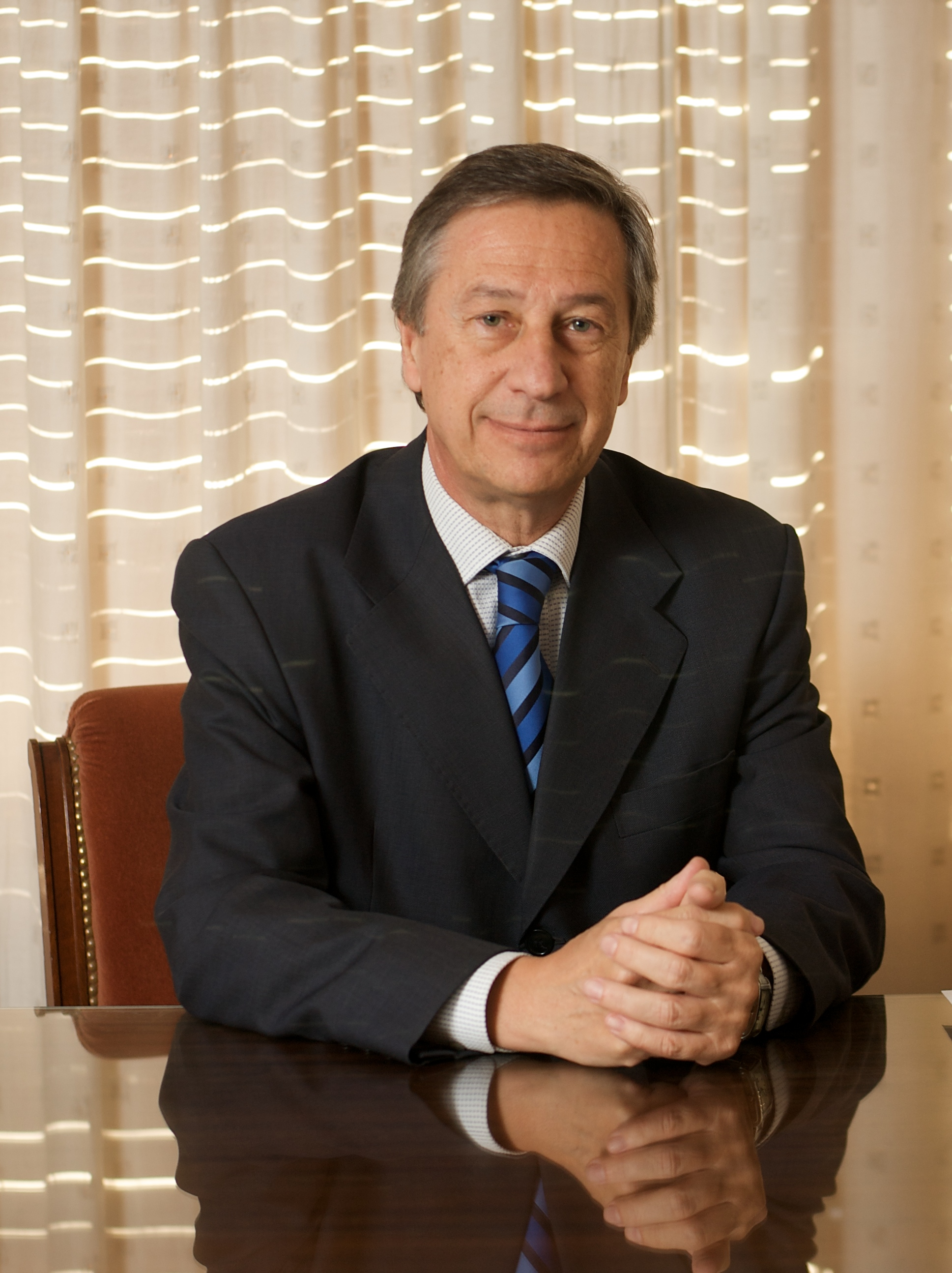 AMM Dr Gilardi - Retratos Editorial